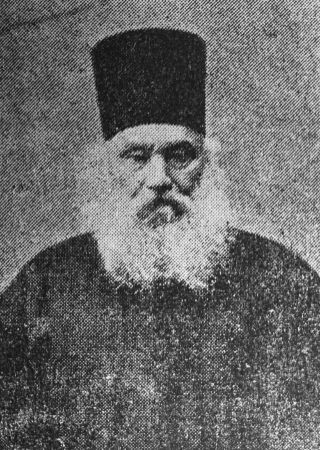 Zosimas Esfigmenitis (1835-1902): Greek scholar